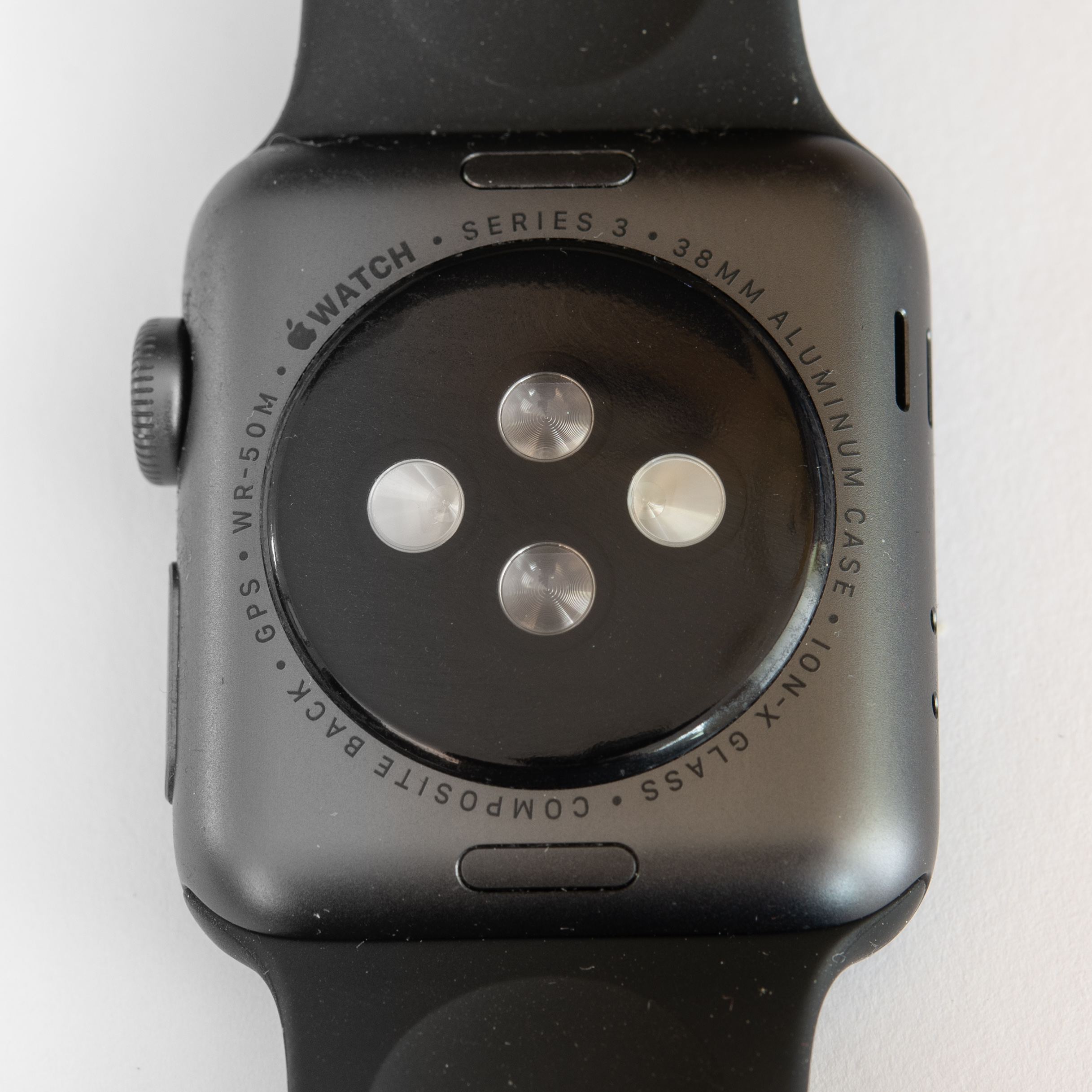 Underside of a 38mm Apple Watch Series 3